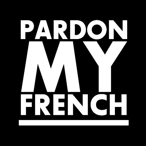 "Pardon My French" is a collective of four French DJs composed of DJ Snake, Tchami, Mercer and Malaa created in 2015.